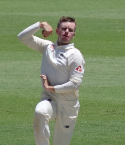 Mason Crane bowling during his test debut during the 5th Test of the 2017/18 Ashes